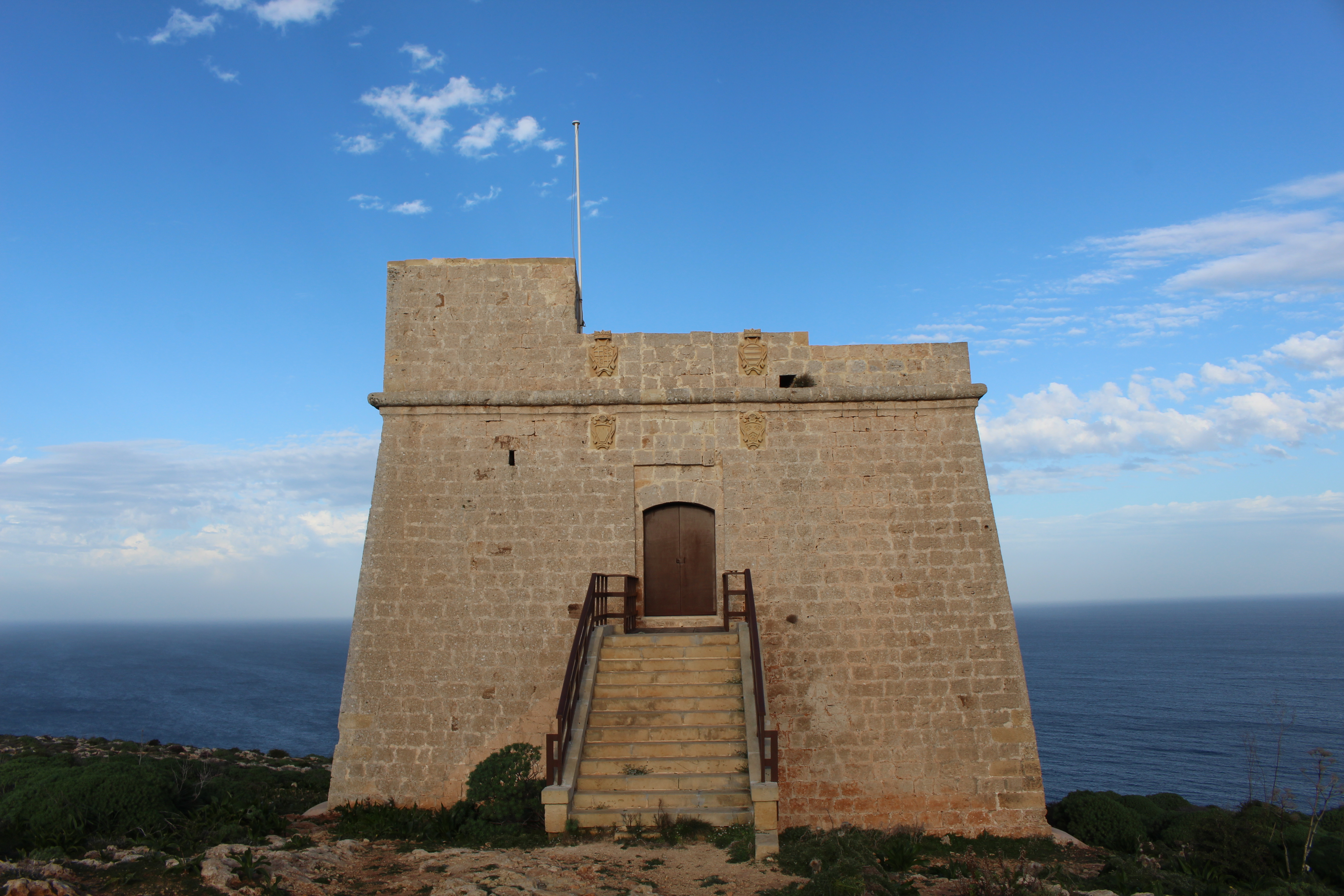 San Blas Tower This media is about Maltese cultural property with inventory number 00038.